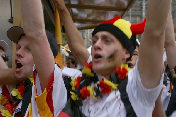 German soccer fans in Aachen cheering after Germany's victory over Sweden in the World Cup